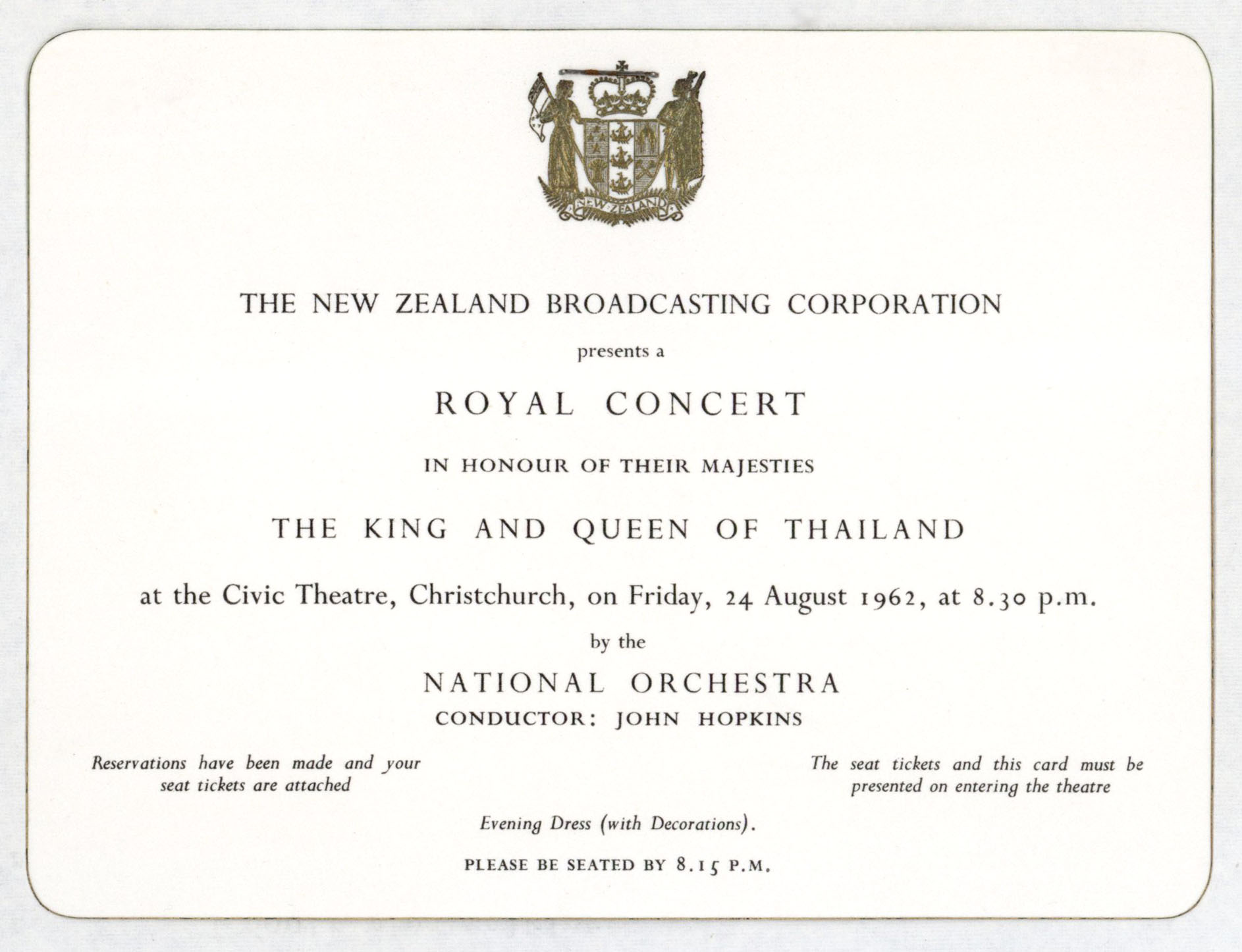 On 18 August 1962 His Majesty King Bhumibol and Queen Sirikit of Thailand arrived in Wellington by royal aircraft, in the first leg of their Australasian tour. They spent 8 days traveling the country, flying out from Christchurch on 26 August. The image above is from a file relating to a Royal concert in honour of the King and Queen. The 24 August event was presented by the New Zealand Broadcasting Corporation and held at the Civic Theatre in Christchurch. It was a glamourous affair; evening dress with decorations was the expected attire. Conducted by John Hopkins, the programme included a work by New Zealand composer Douglas Lilburn: Festival Overture - Douglas Lilburn Till Eulenspiegel’s Merry Pranks - R. Strauss Serenade No. 4 in D Major - Mozart Symphony No. 9 in E Minor (from the New World) - Dvorak Archives Reference: AAHT W4902 564 649 21/13/2 National Orchestra Of New Zealand - Royal Concert In Honour Of King And Queen Of Thailand, 24 August 1962